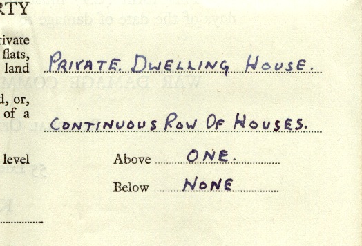 War Damage Commission. Claim form C1. Notification of Damage pursuant to the Provisions of Section 10 of the War Damage Act, 1941. This sample is from Barnes, London, 1944.